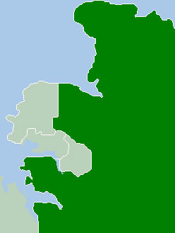 Map of Darwin's Local Government Areas, highlighting Shire of Litchfield